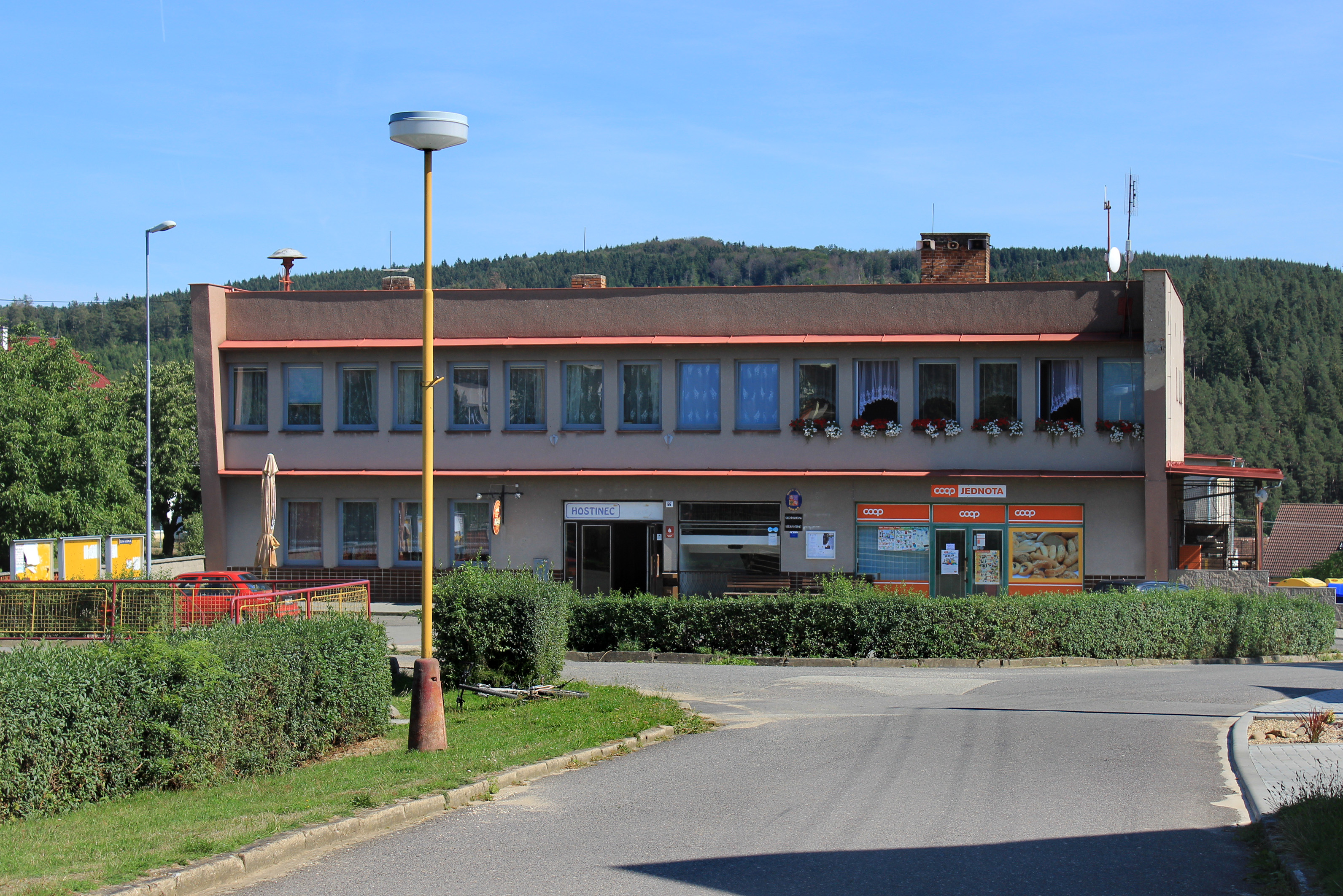 Restaurant and small shop in Hříšice, Czech Republic.